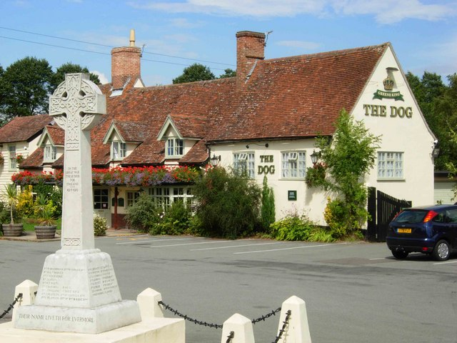 The Dog, Norton. This attractive pub and the war memorial stand at the crossroads on the A1088.